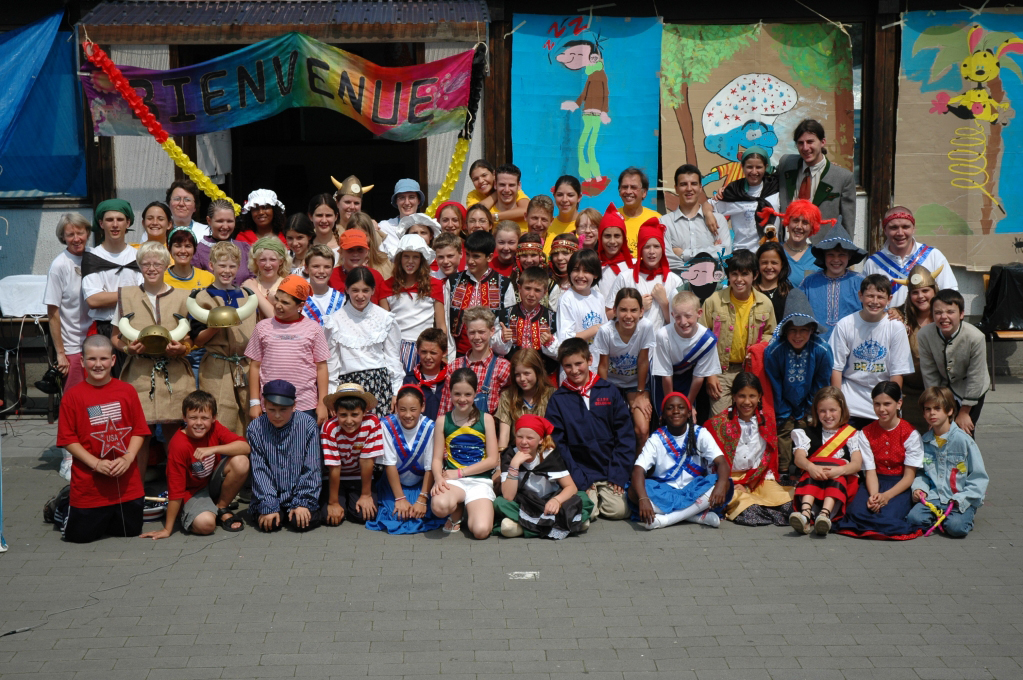 An example of CISV Village program